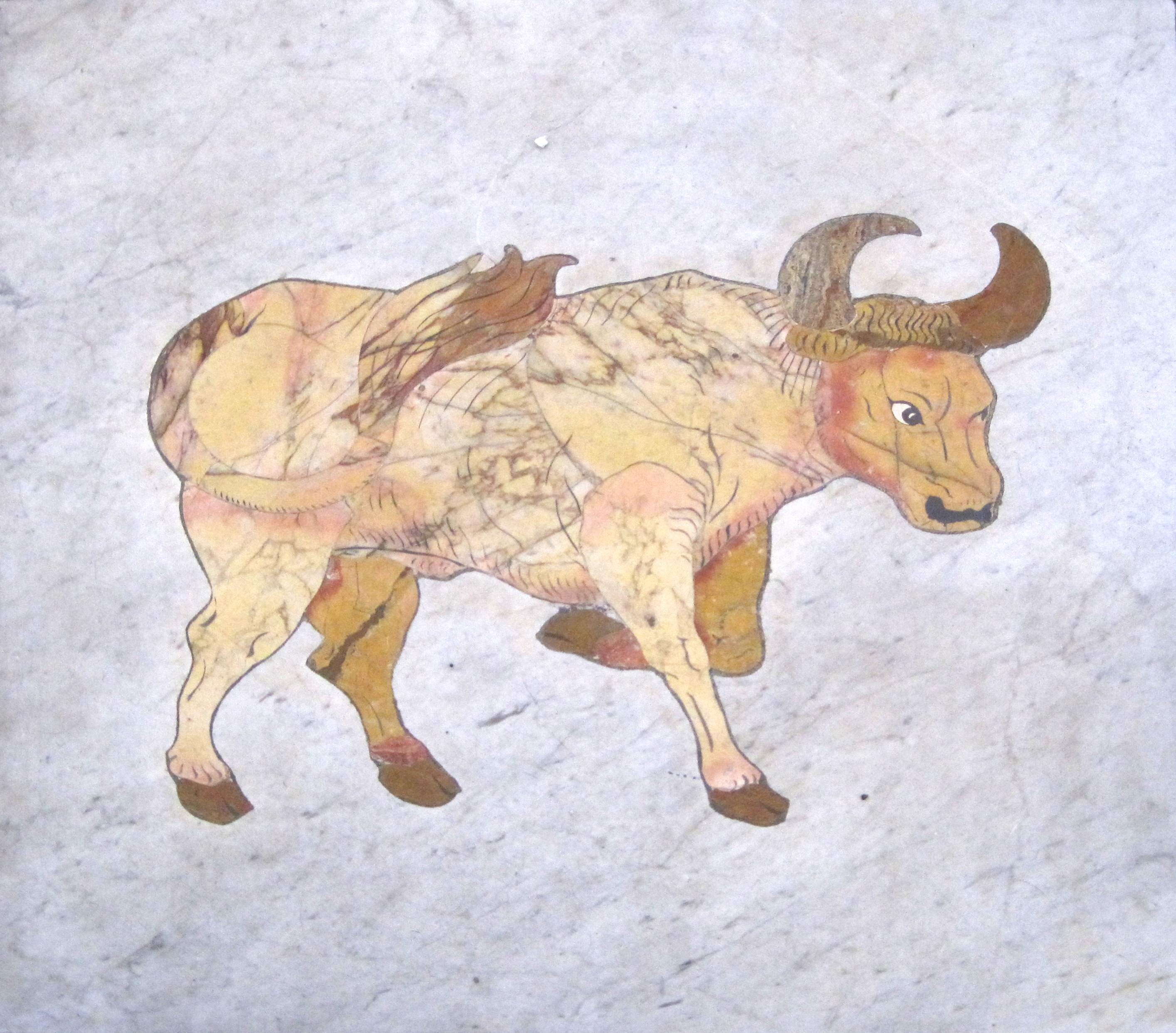 Zodiacal sign of the Taurus on panel of white marble inlaid with colored marble (opus sectile) adorning one side of the Meridian solar line of Basilica Santa Maria degli Angeli e dei Martiri in Rome built by Francesco Bianchini (1702).